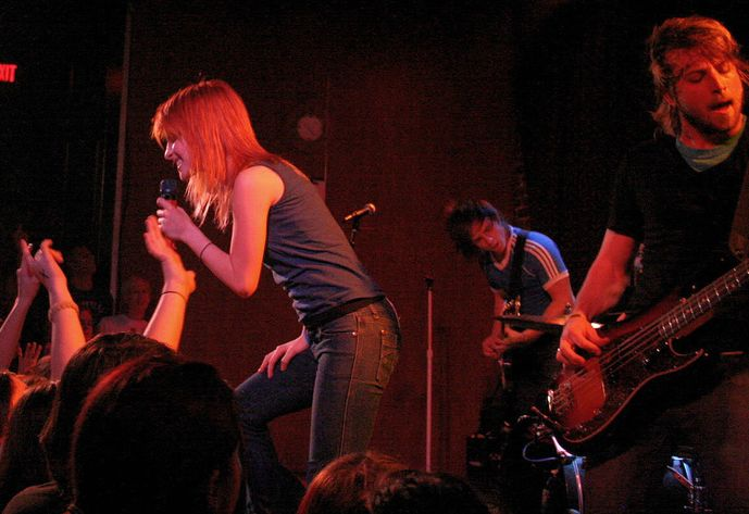 Paramore at The Social, Orlando, Florida on April, 23 2007. Cropped image.